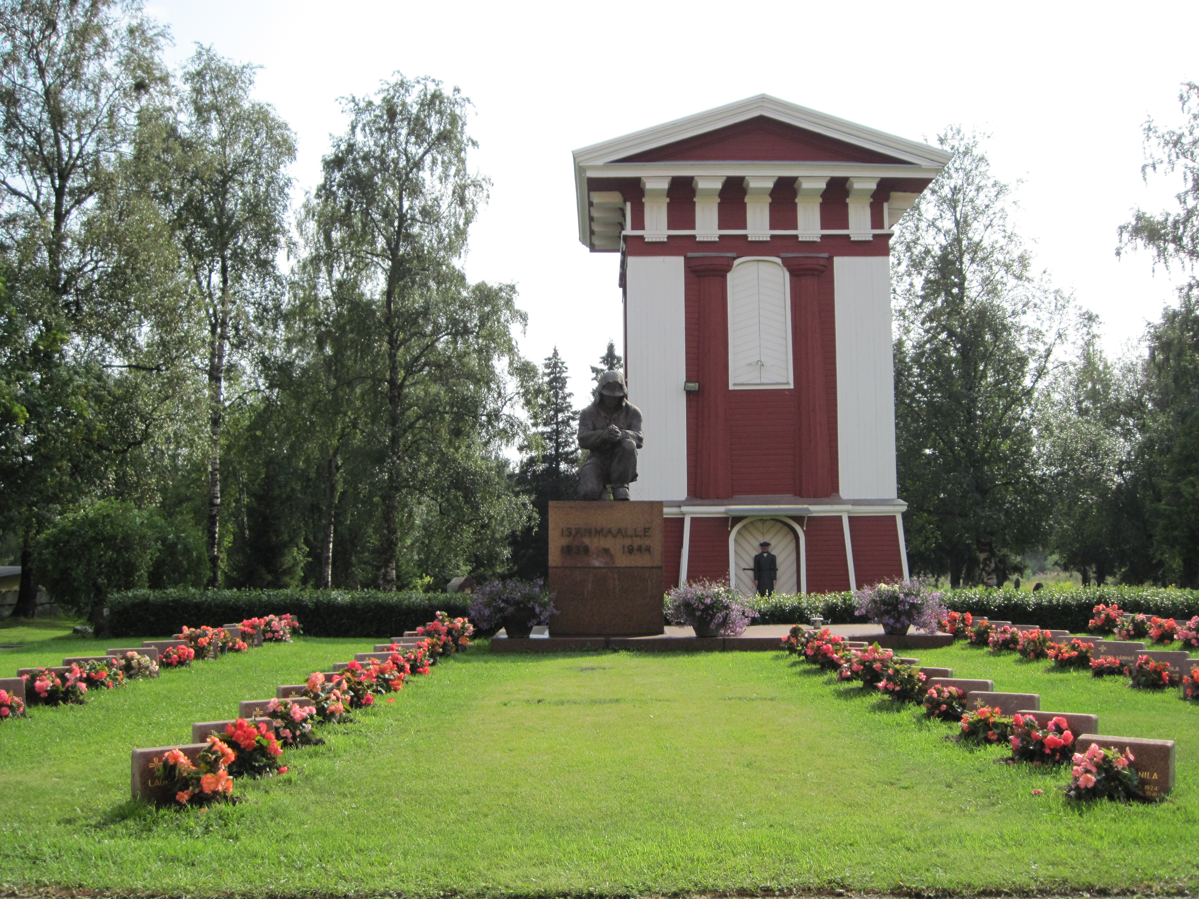 Military cemetary at Saloinen church in Raahe, Finland